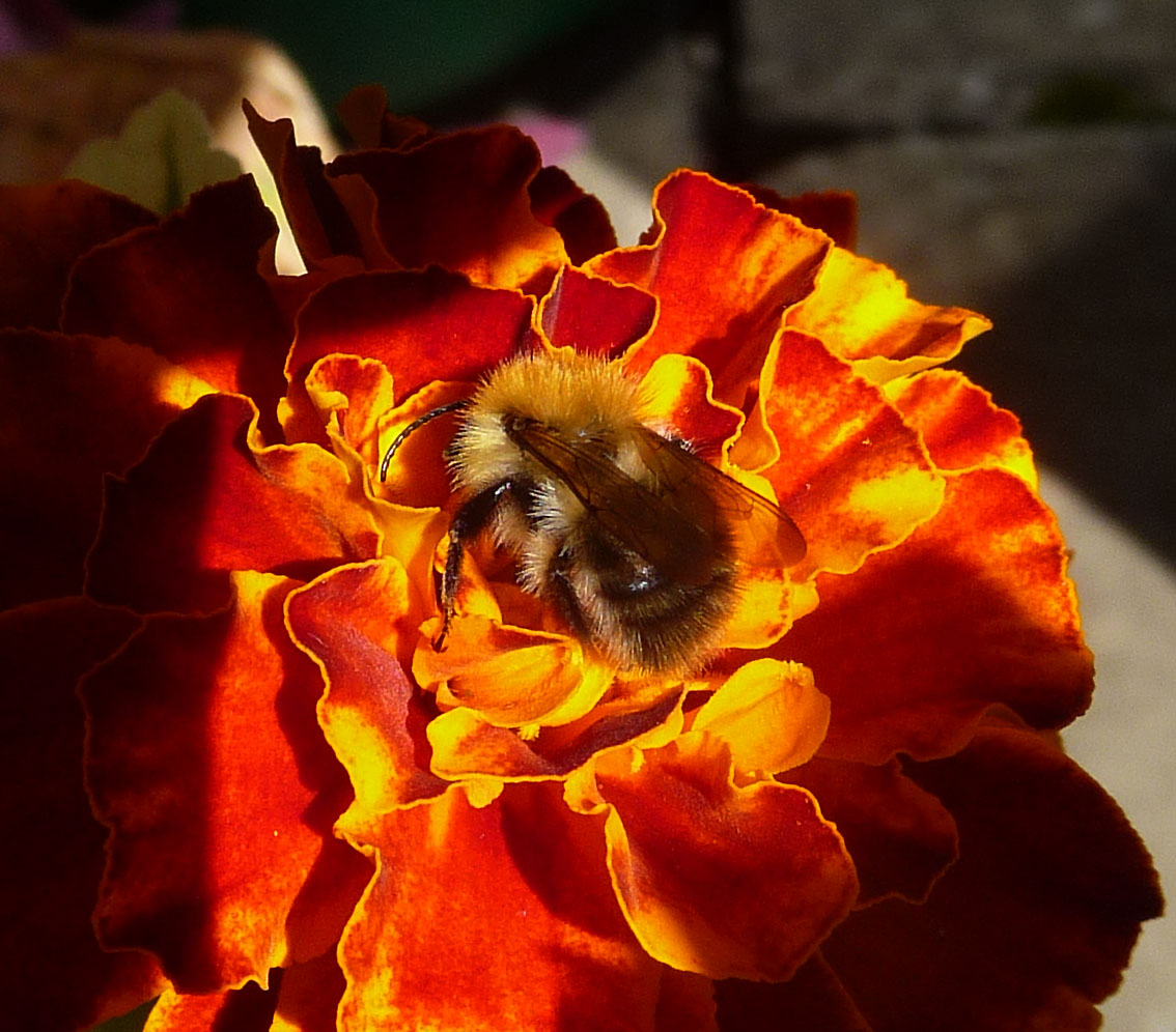 Bombus muscorum on French Marigold